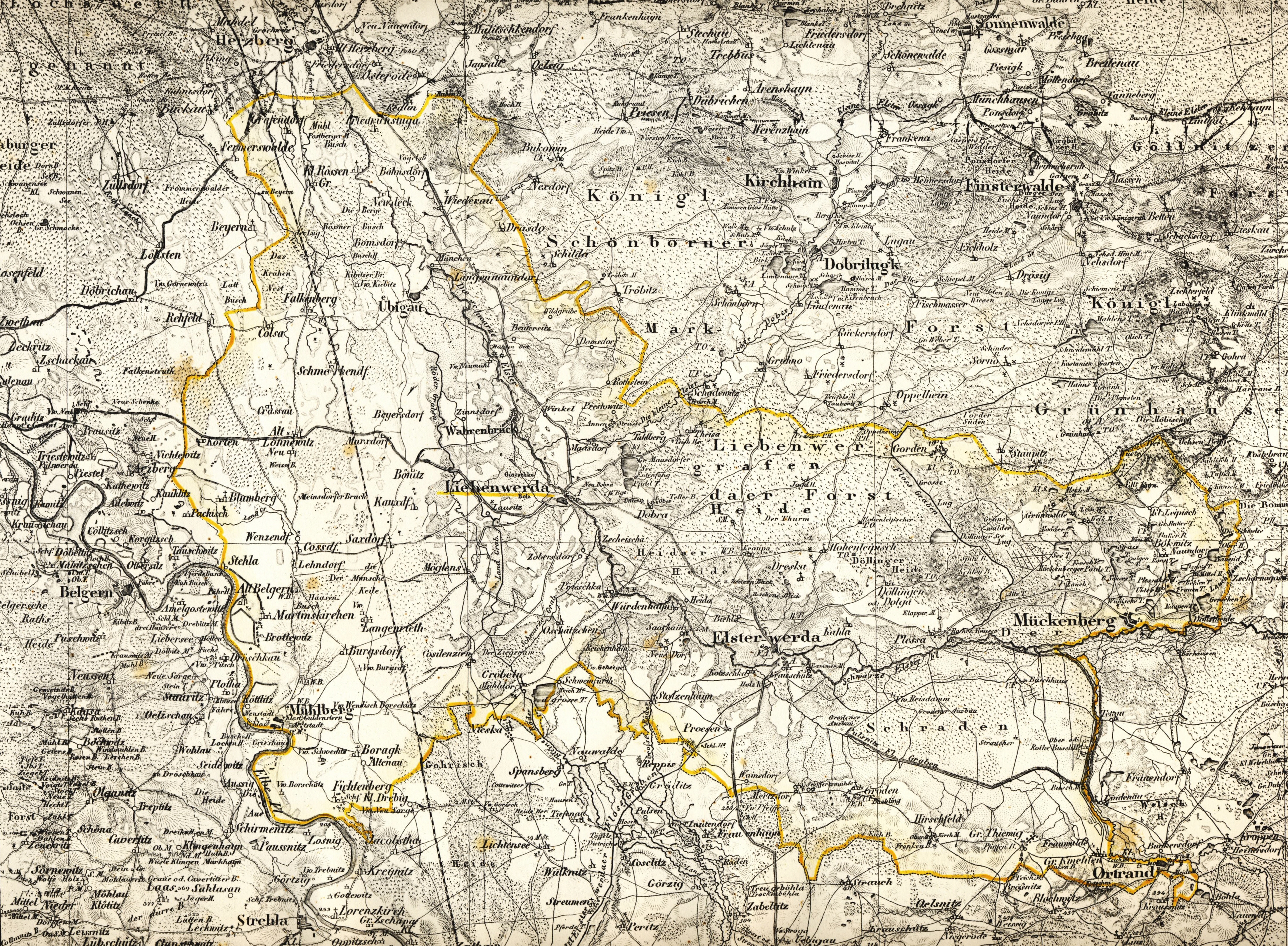 "Kreis Liebenwerda"